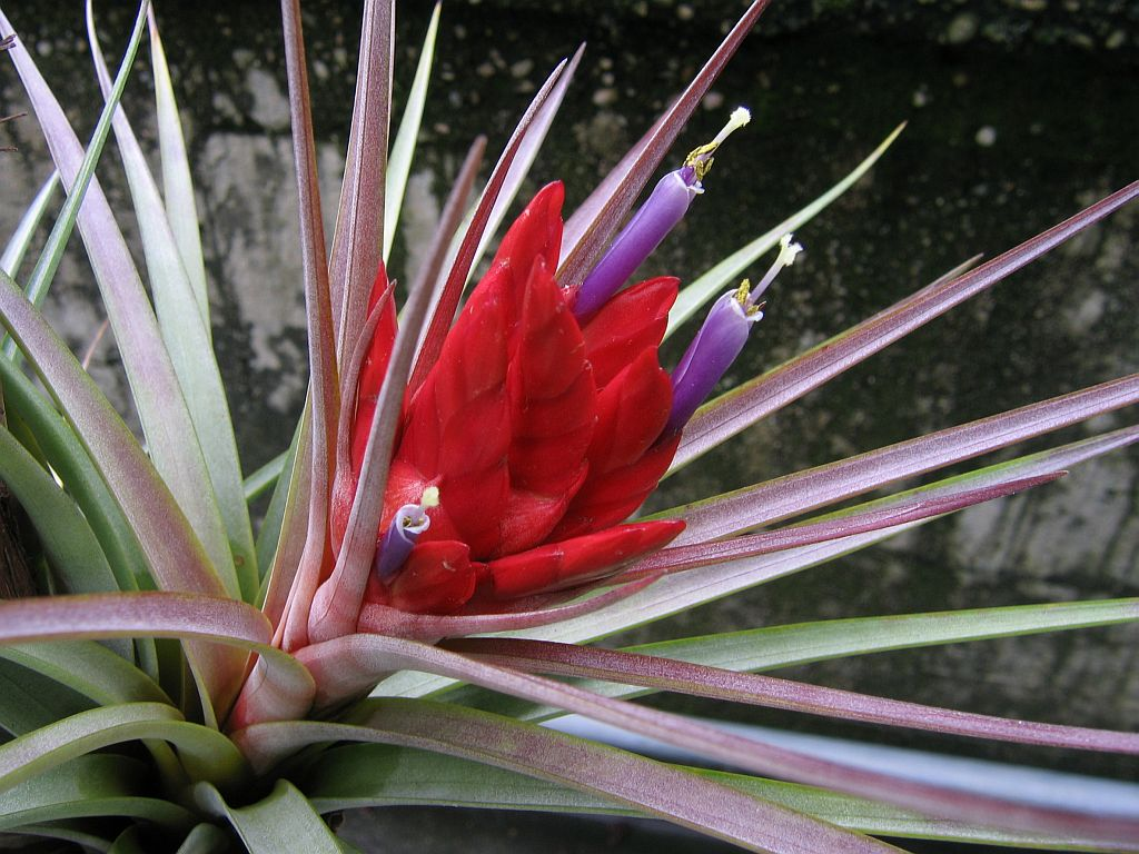 Tillandsia fasciculata var. densispica in cultivation at the Botanical Garden of Heidelberg, Germany.